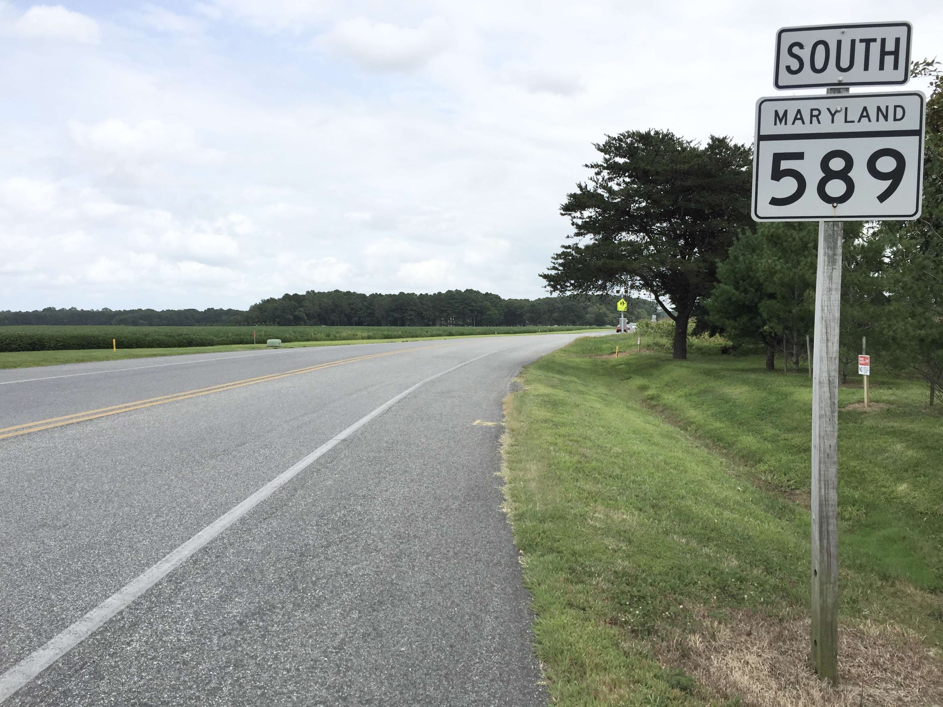 View south along Maryland State Route 589 (Race Track Road) at Calvin Lane in Showell, Worcester County, Maryland